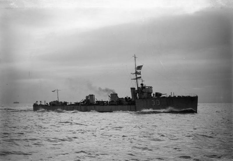 Photograph of British destroyer HMS Acasta.